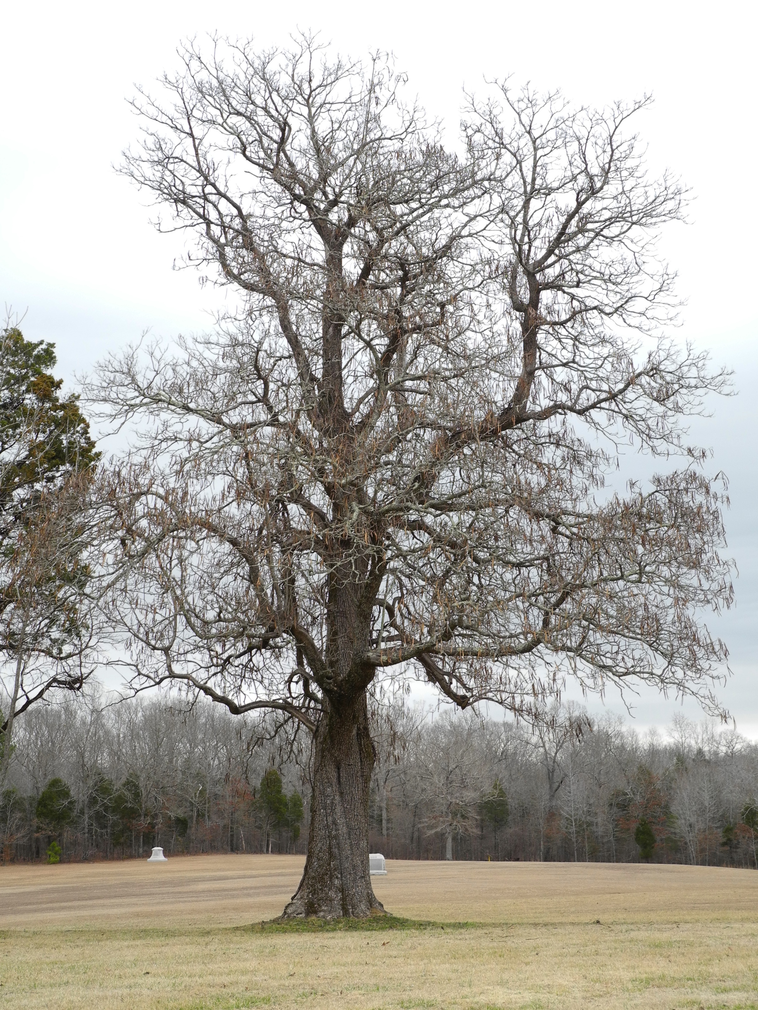 A mature catalpa tree on the grounds of the Shiloh National Military Park in Tennessee, USA. It is not known to the photographer whether this is a Southern Catalpa or a Northern Catalpa.